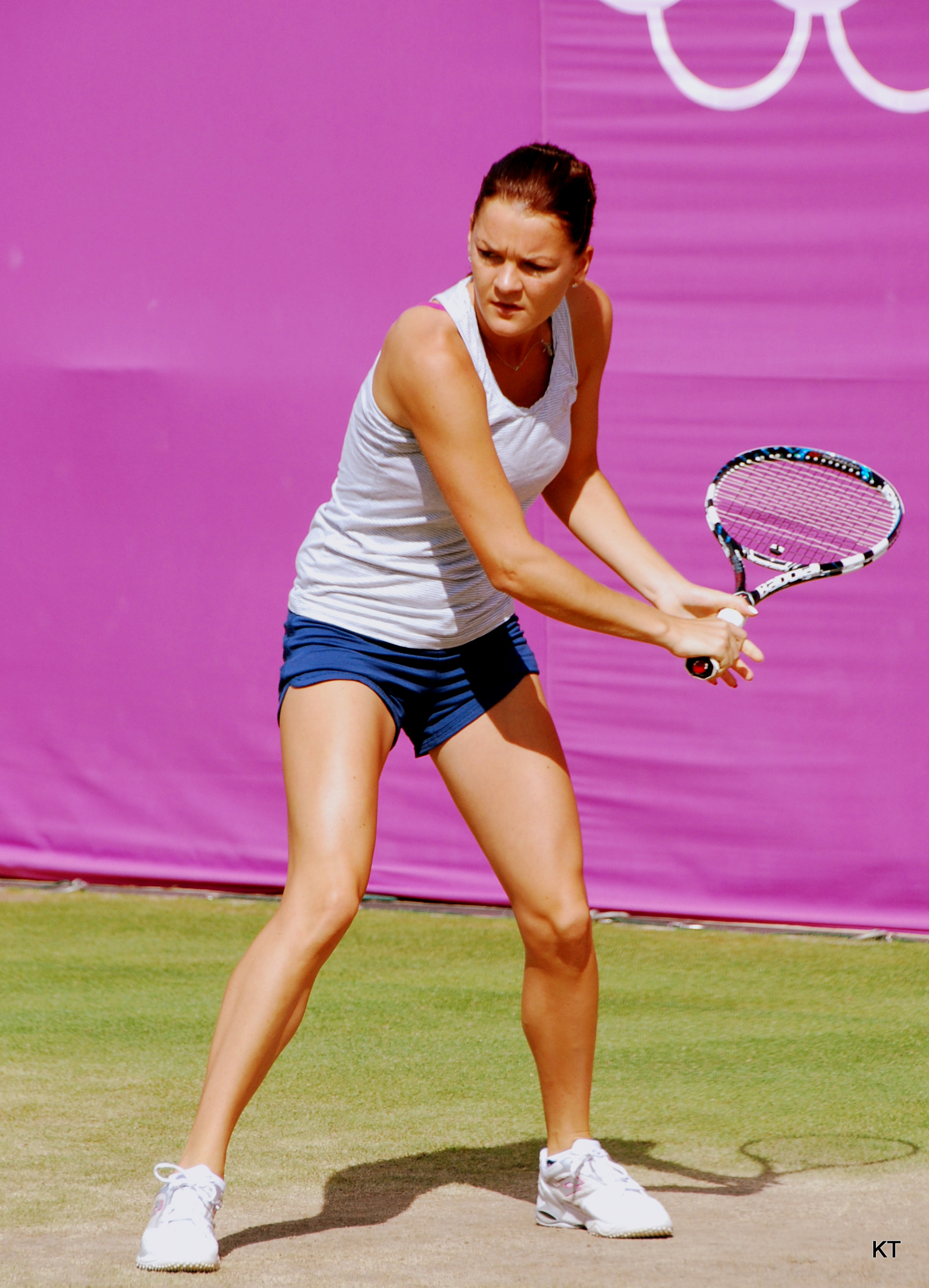 Practising with sister & doubles partner Urszula.